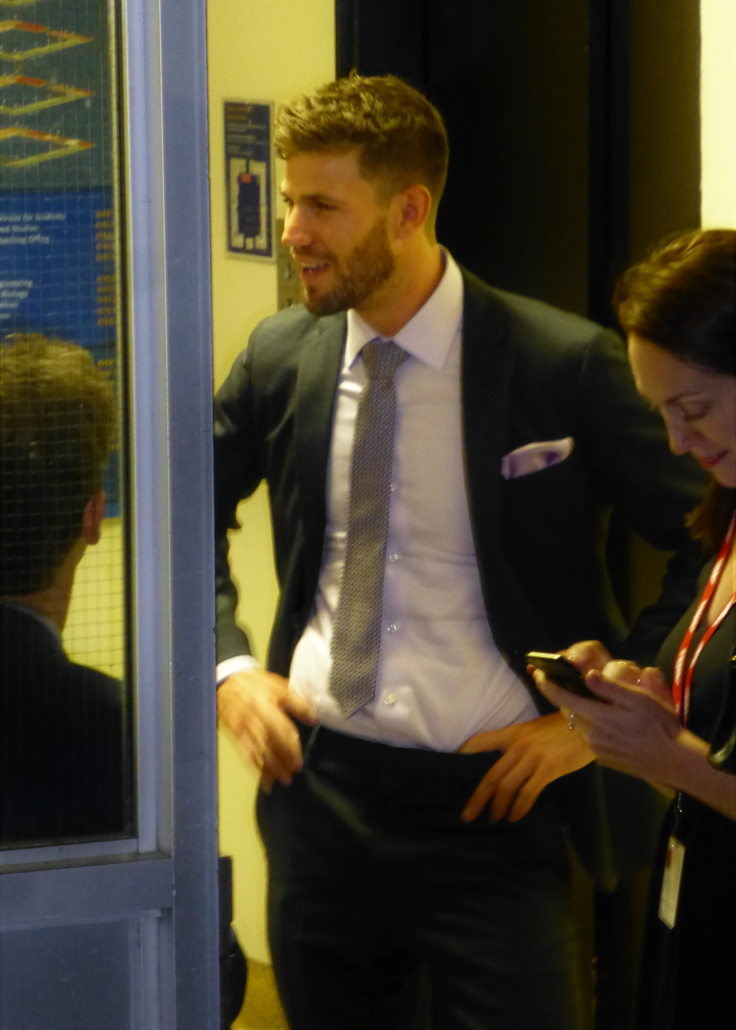 Austin Stowell at the premiere of Colossal, 2016 Toronto Film Festival